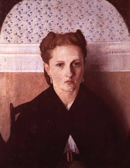 Portrait of wife